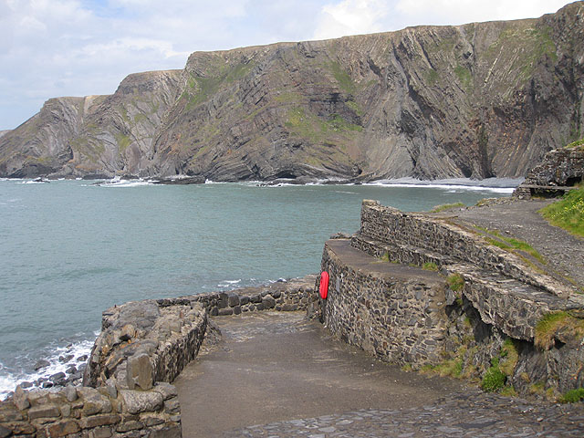 Slipway, Hartland Quay With a good view of the folded and faulted Warren Cliff.